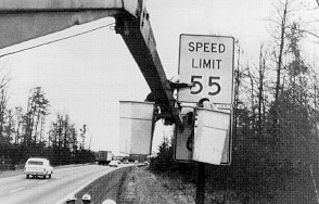 A 55 mph speed limit sign going up in 1974, required by the federal government as a condition of receiving highway funds. original image at FHWA